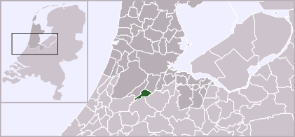 Locator map of Dutch municipalities in Noord-Holland (LocatieUithoorn.png)